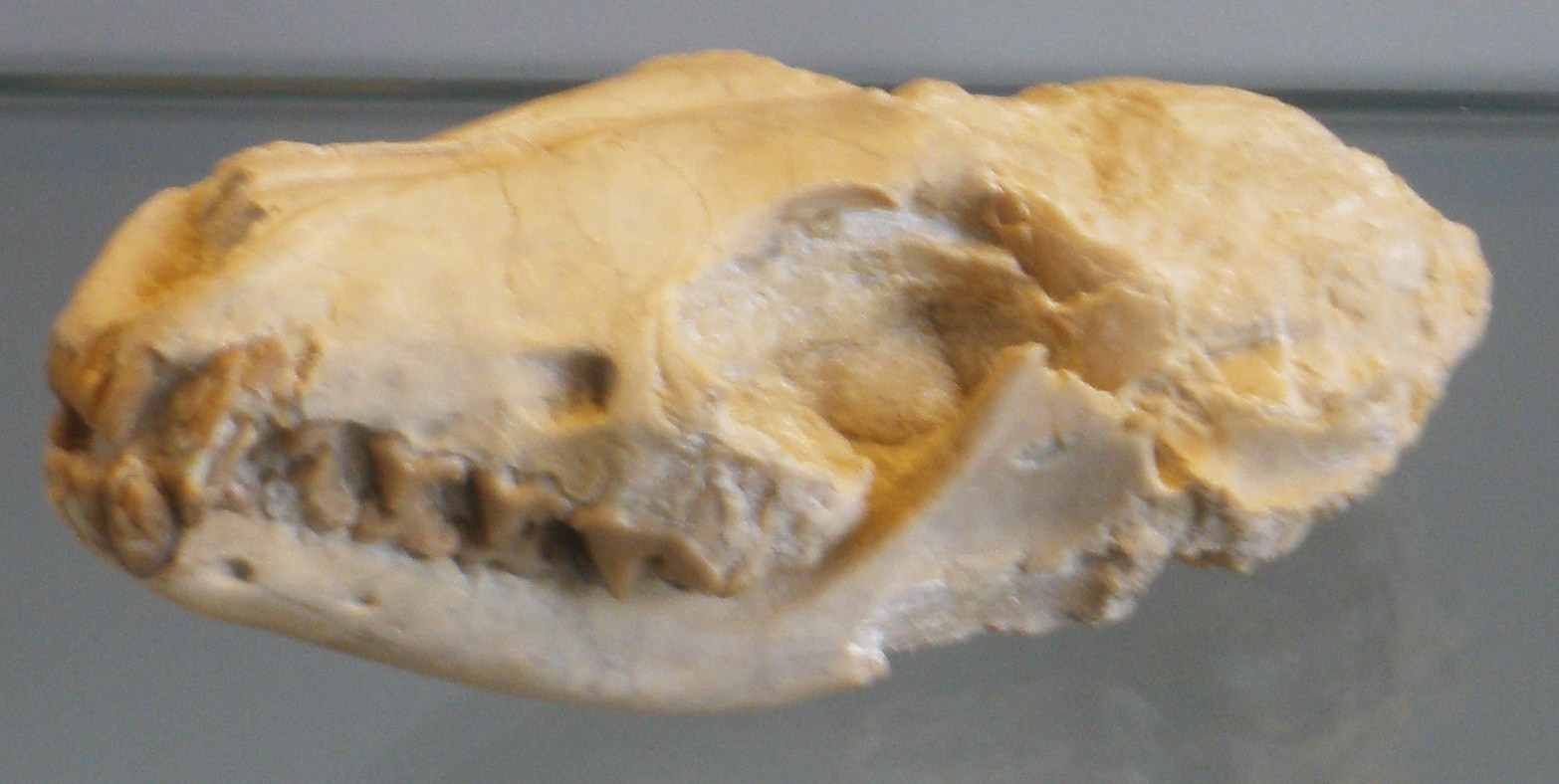 fossil Hesperocyon